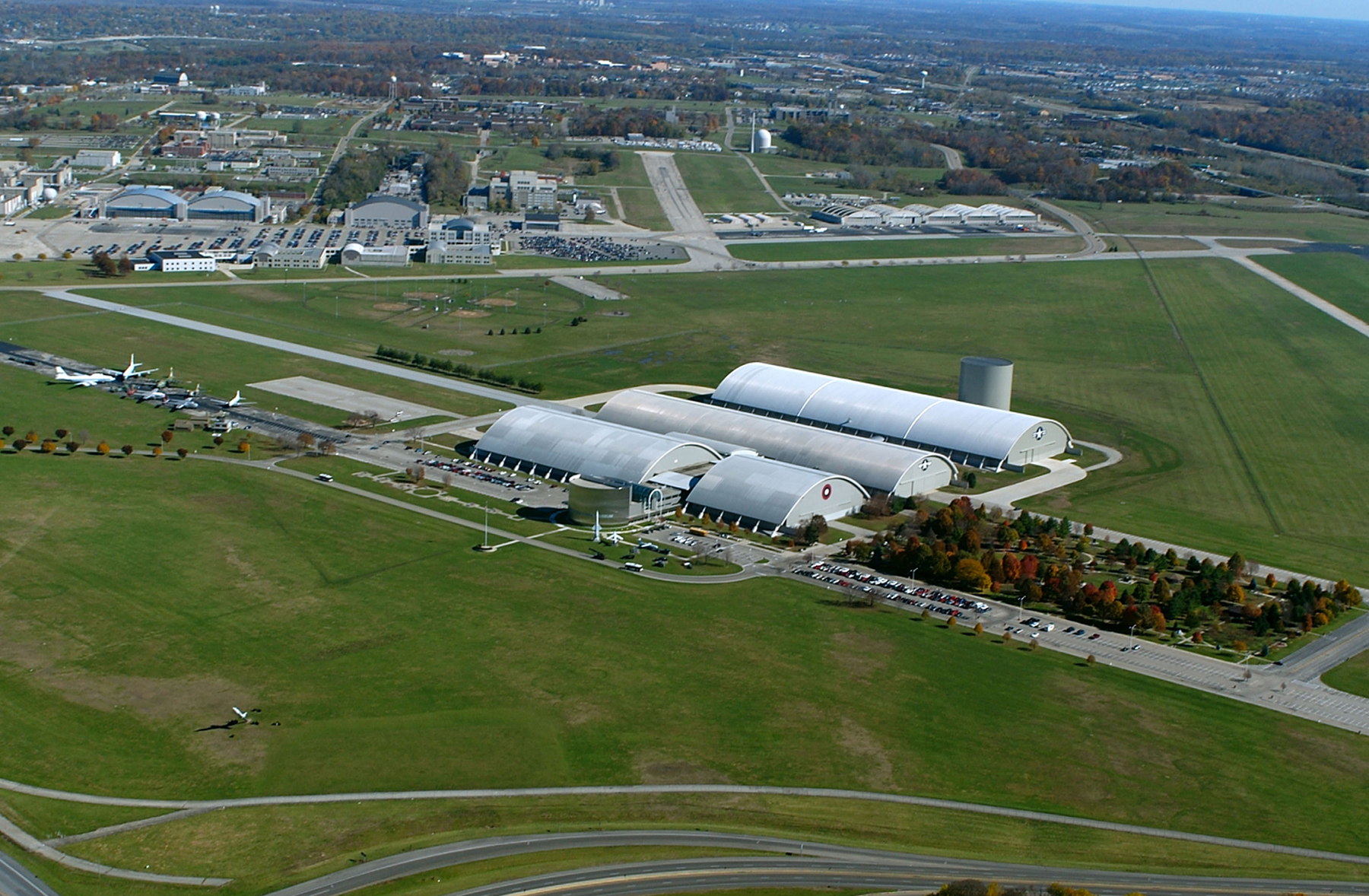 National Museum of the United States Air Force, Dayton (Ohio), aerial view 2004